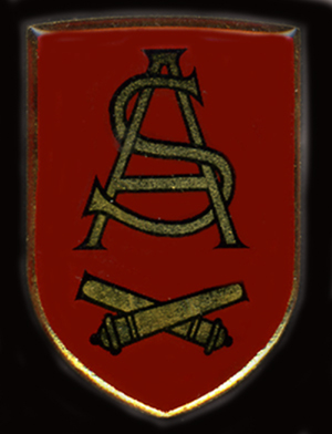 Coats of arms of Artillery School